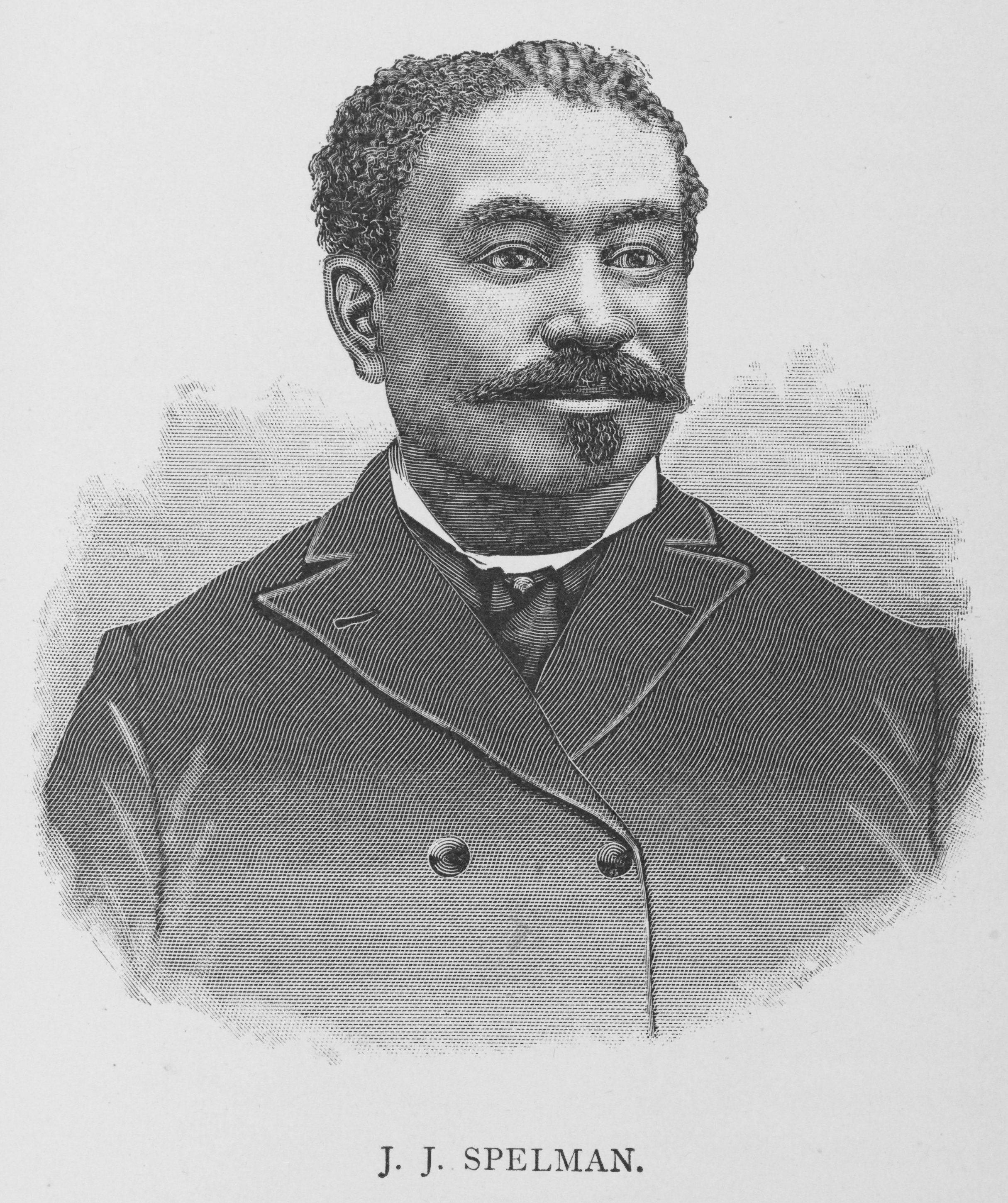 Spelman in 1887